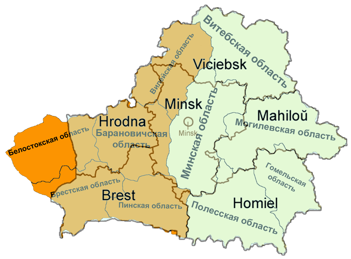 Administrative divisions of Belarus. Outline of modern-day Belarus (light green and beige) on top of administrative divisions of Belorussian SSR in 1940 (entire map, with small type) before Operation Barbarossa, but after annexation of Kresy in the Nazi-Soviet invasion of Poland.